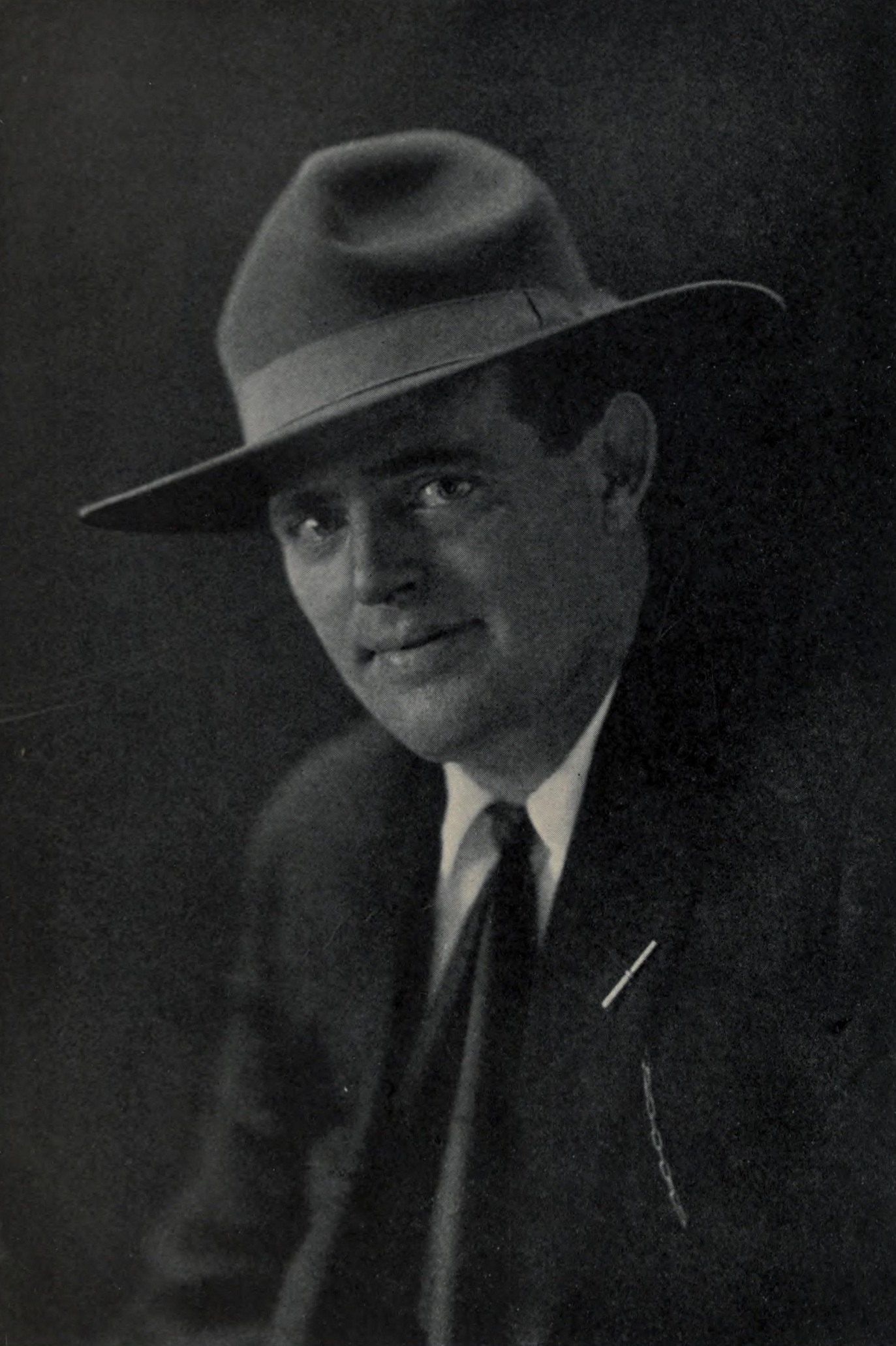 Jack London 1914